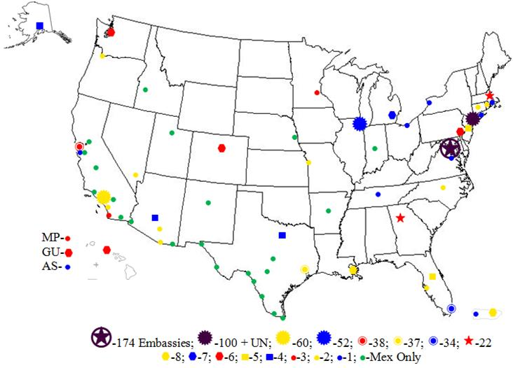 Diplomatic missions of foreign countries in the United States